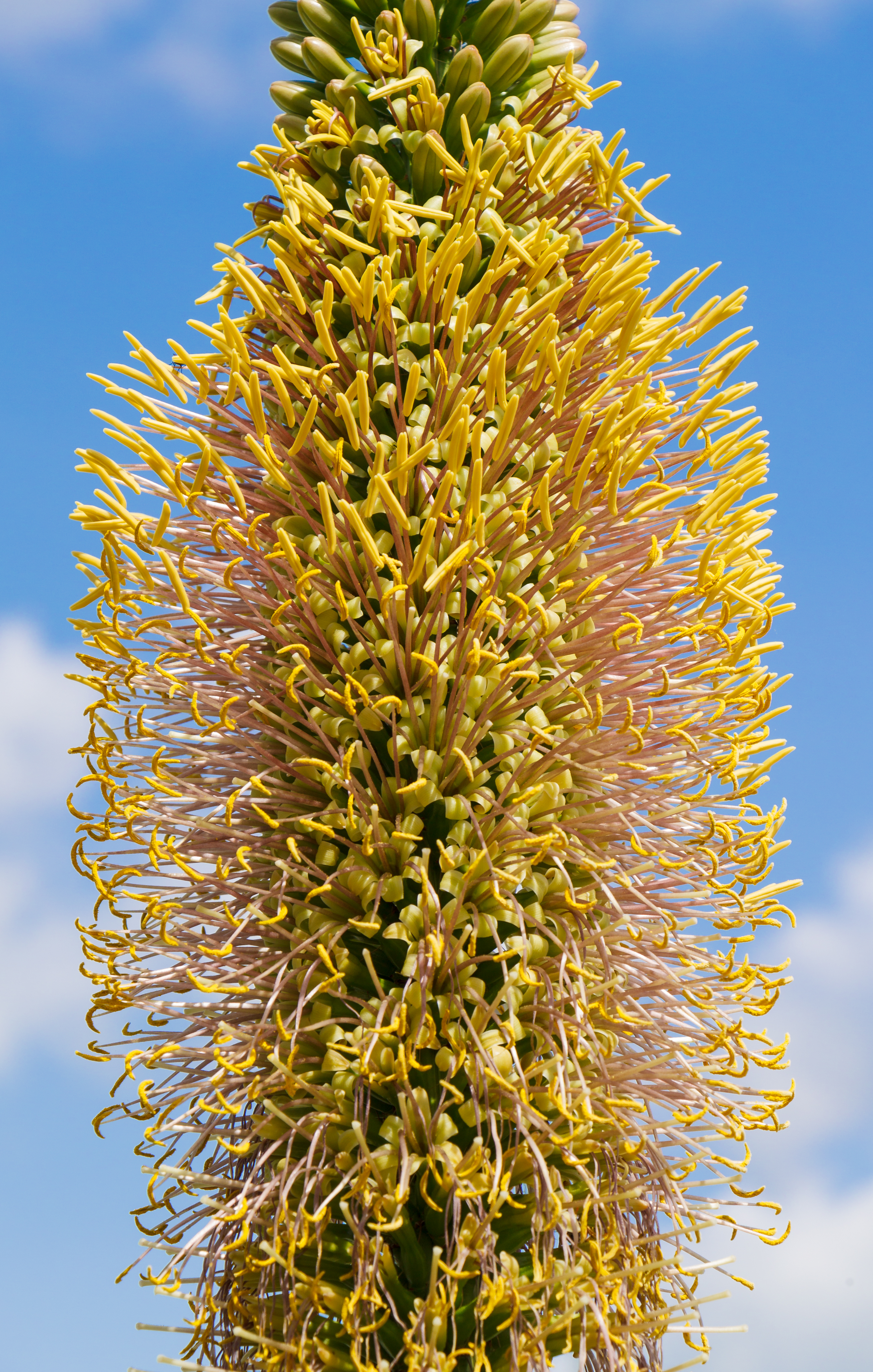 Agave filifera Salm-Dyck, Thread agave; Flowers; Kleinsteinbach, Pfinztal, Germany; Shell of own collection, therefore not geocoded.